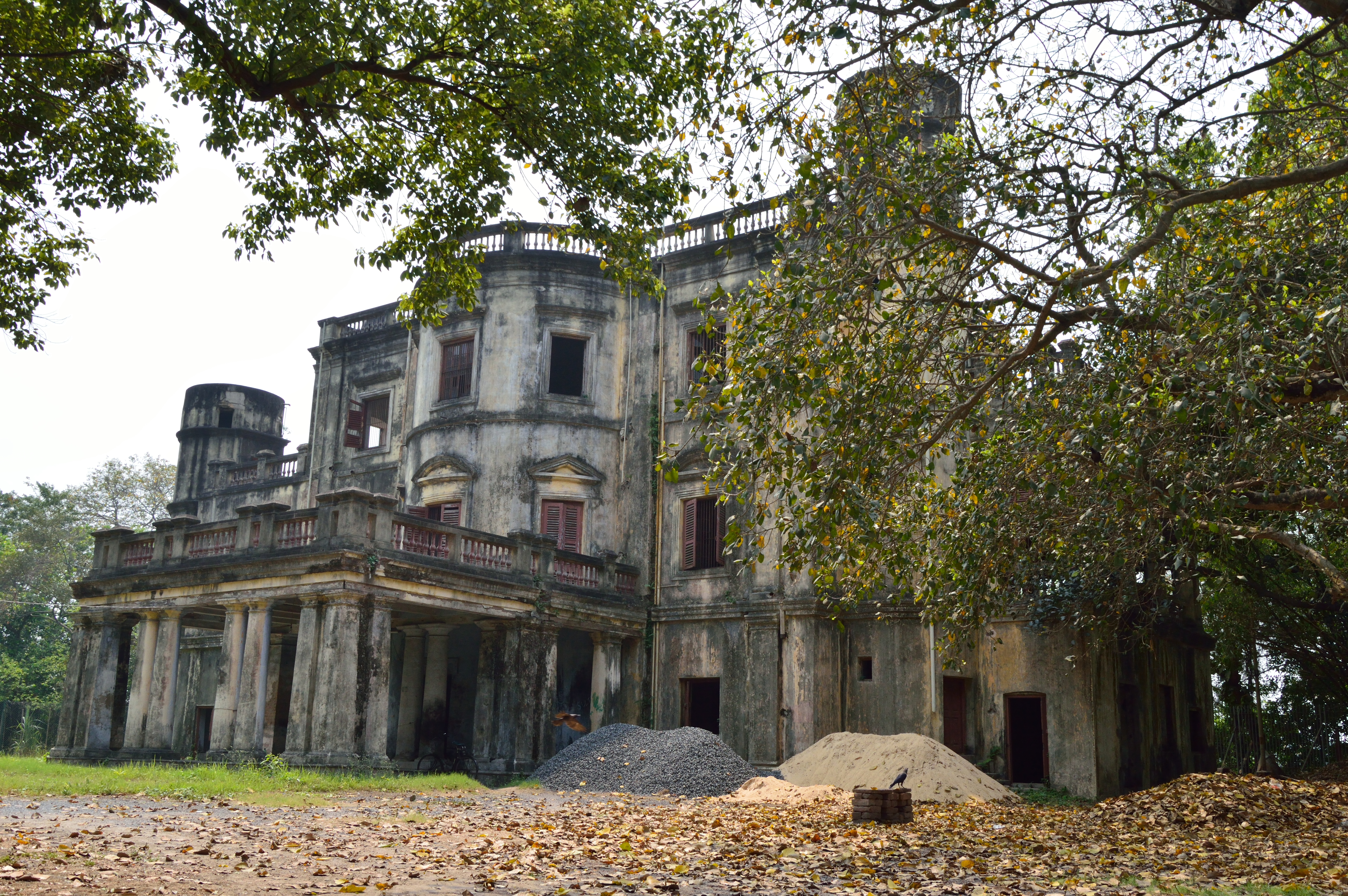 The Roxburgh Building, 200 year old structure of the botanical garden at Howrah, was known as ‘East India Company’s Garden’ or the ‘Company Bagan’ or ‘Calcutta Garden’ and later as the ‘Royal Botanic Garden’ which after independence was renamed as the ‘Indian Botanic Garden’ in 1950. It came under the management of the Botanical Survey of India on January 1, 1963. From June 25, 2009 it is renamed as ‘Acharya Jagadish Chandra Bose Indian Botanic Garden’.